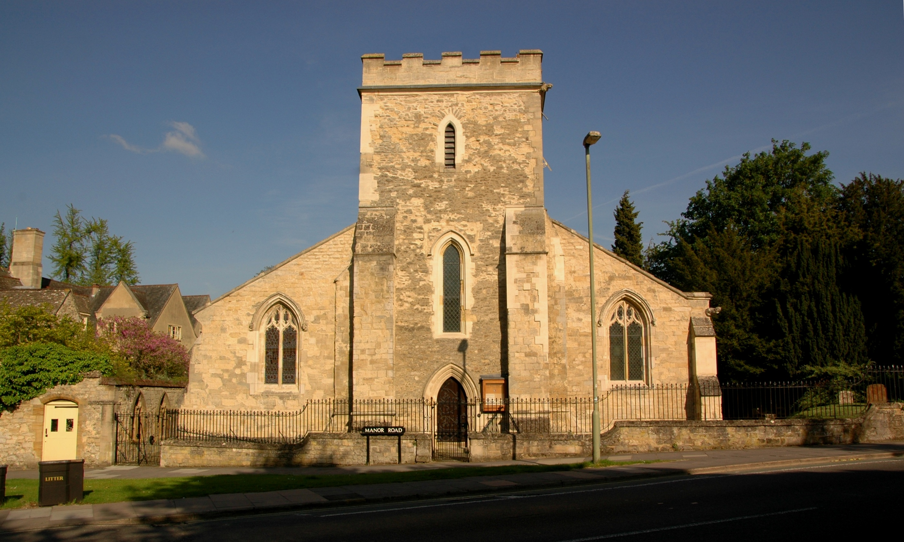 Former Church of England parish church of St Cross, Manor Road, Oxford: now part of Balliol College